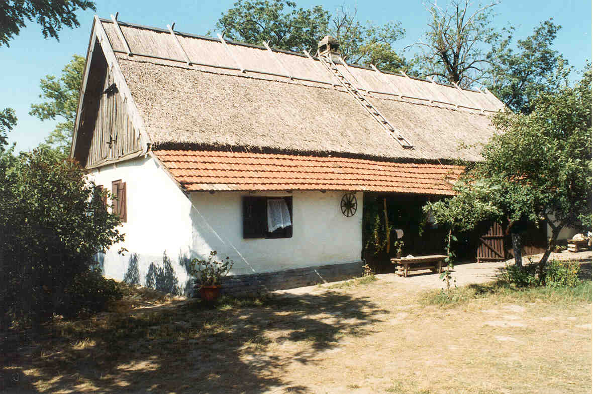 Salaš "Róka tanya" the more than 130 years old mudhut in the north of Serbia, restored to function as an etnographic museum.